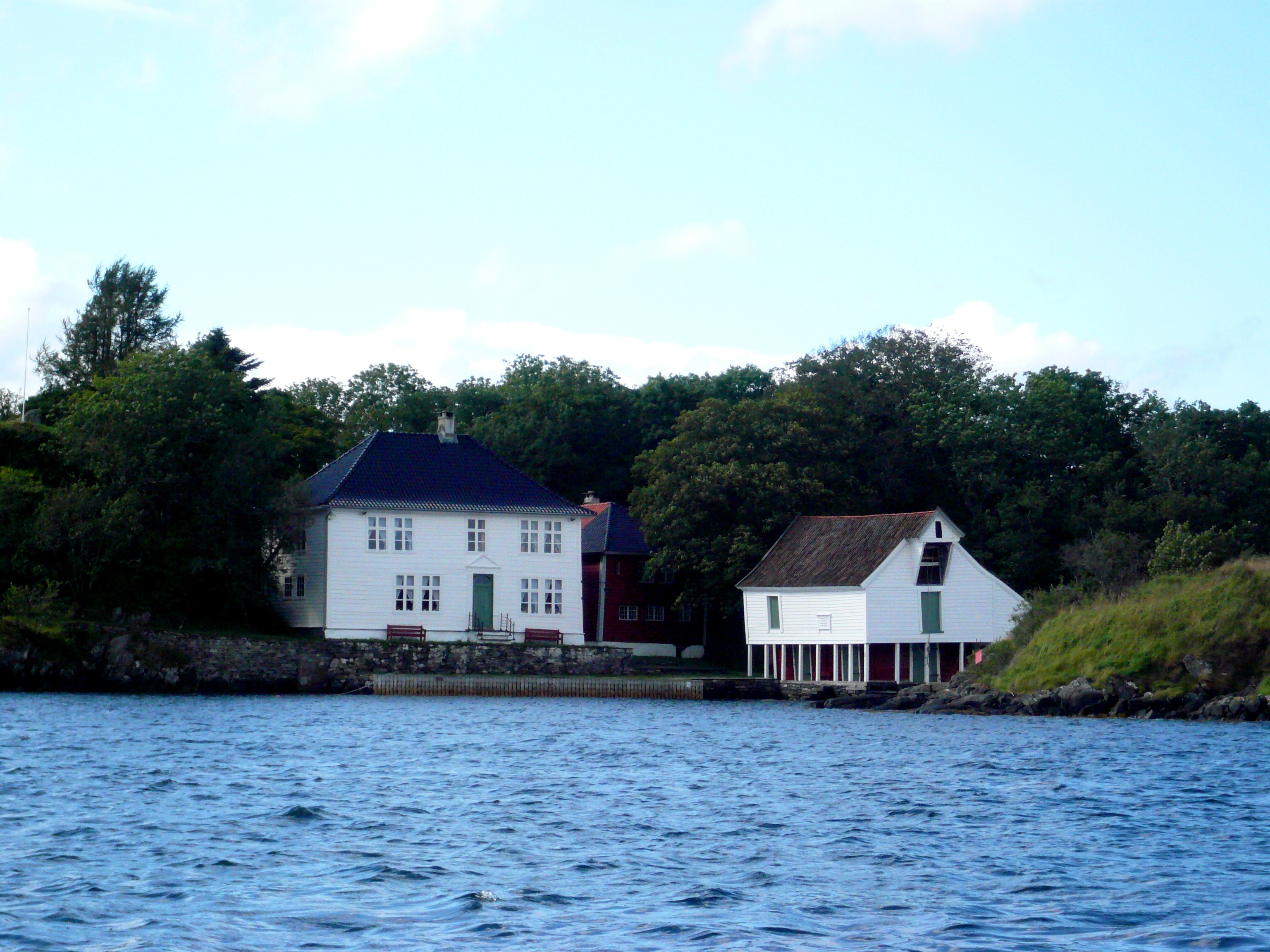 Bukken, Vestland